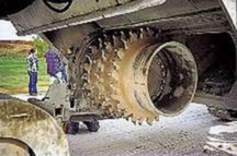 The modified roto-mill head mills slot for the dowel-bar retrofit